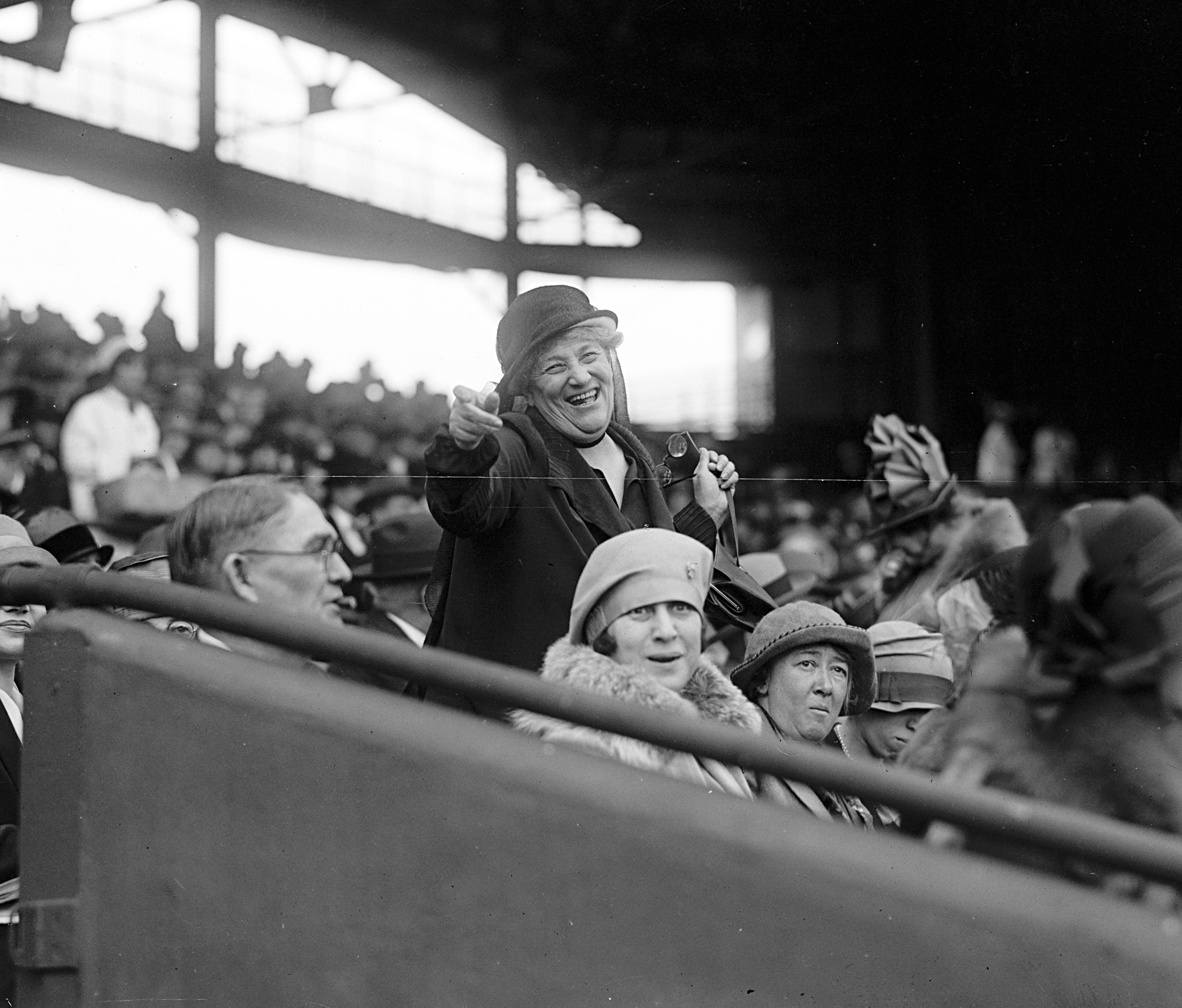 Florence Prag Kahn, US Representative from California, watching a sports game (probably baseball) between teams of Republicans and Democrats